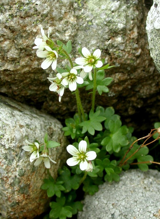 Flowering Saxifraga carpatica, Vysoké Tatry (Tatra Mountains), Slovakia